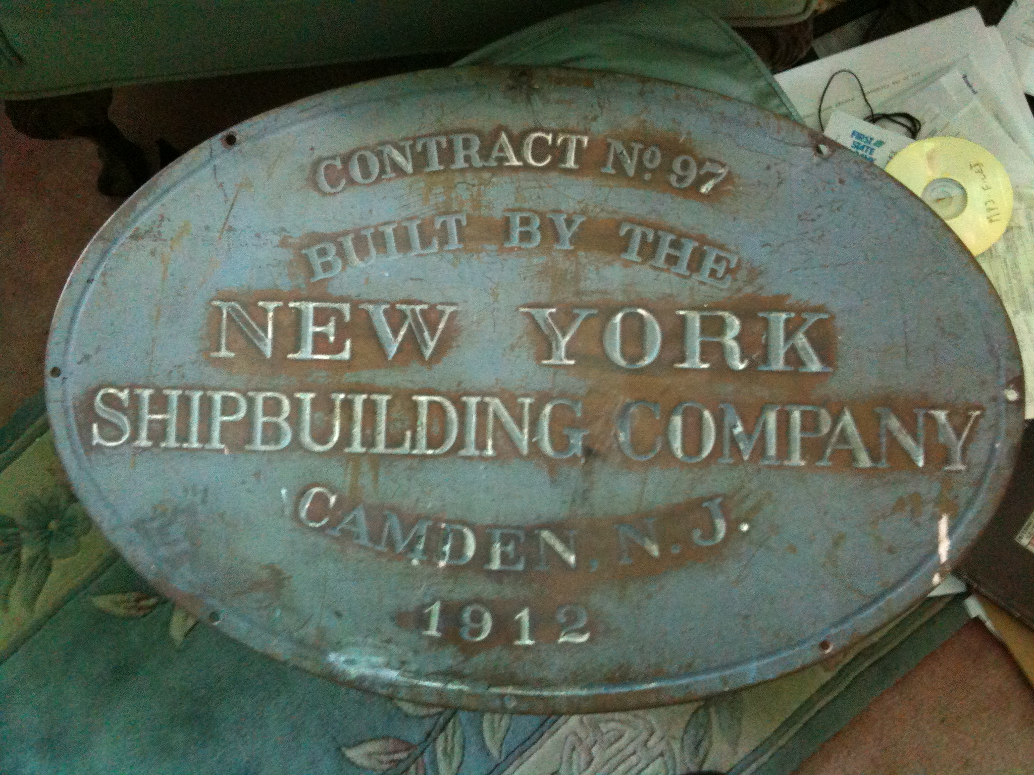 photo of the builder plate from the USS ARKANASAS now owned by the family of Rear Admiral William Ernest Verge